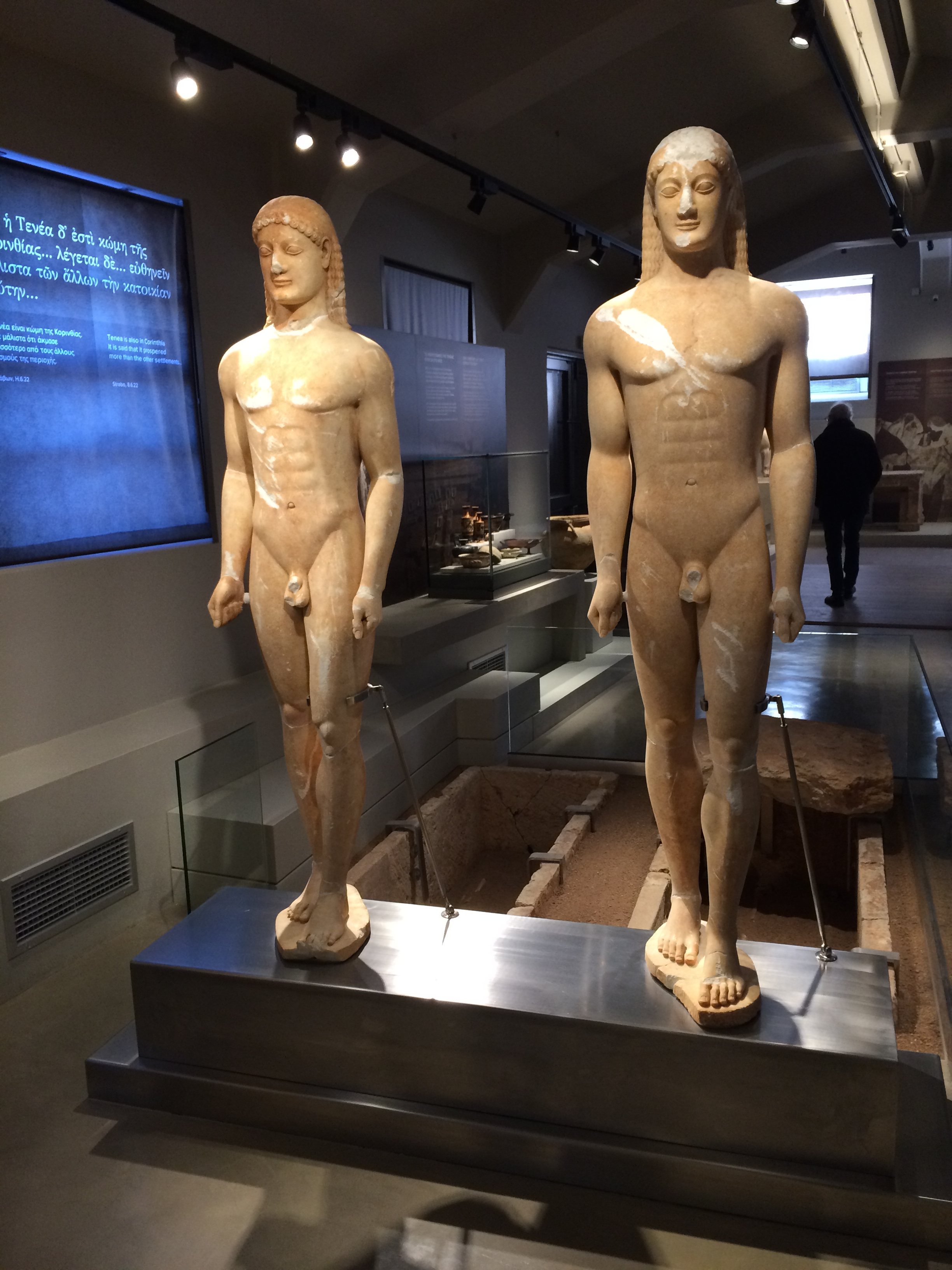 Kouroi of Klenia (530-520 BC)